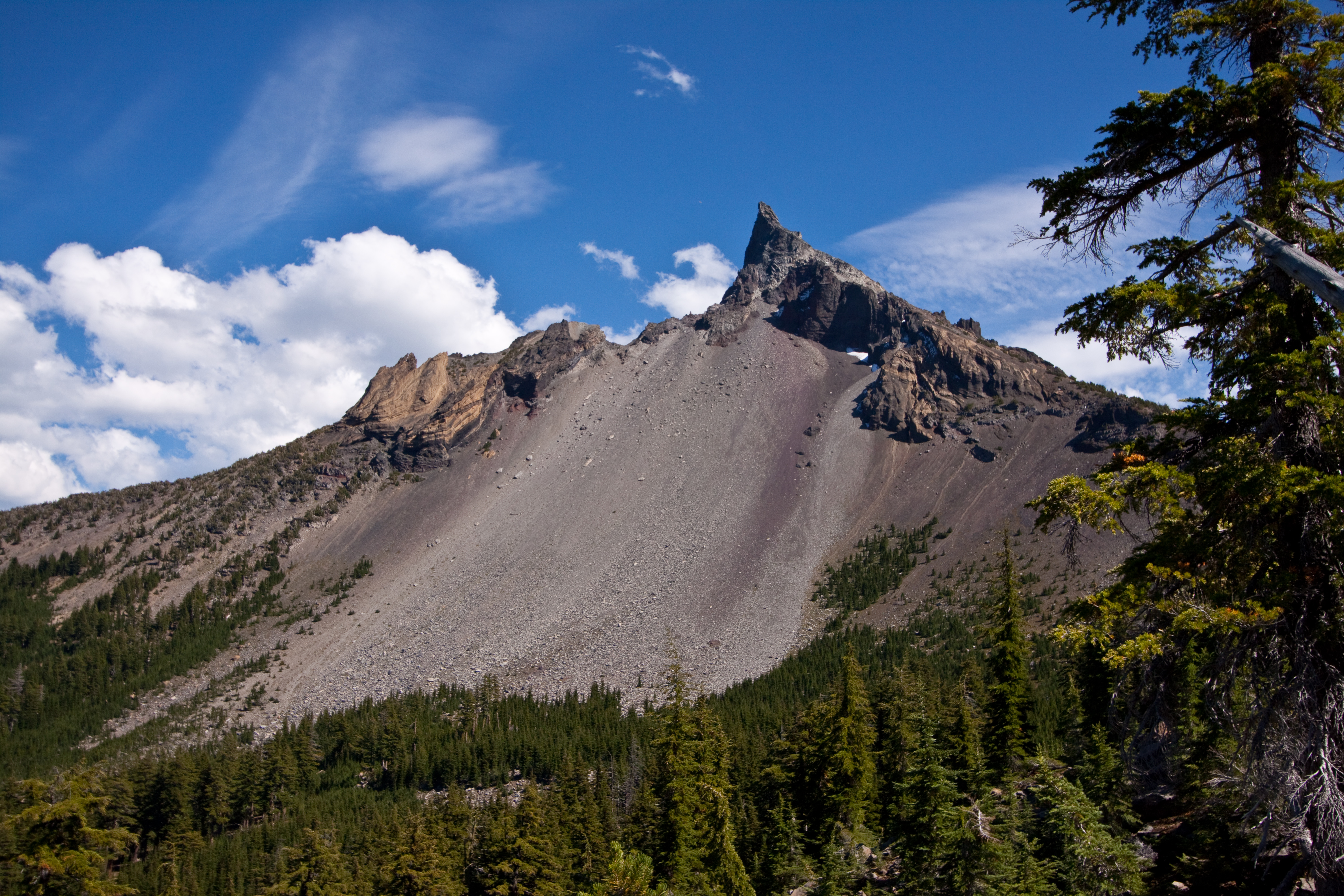 Picture of Mt. Thielsen as seen from the Pacific Crest Trail.